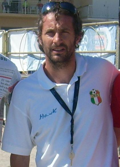 Maurizio Ganz before Beach Soccer's match at Sciacca (Ag) Sicily